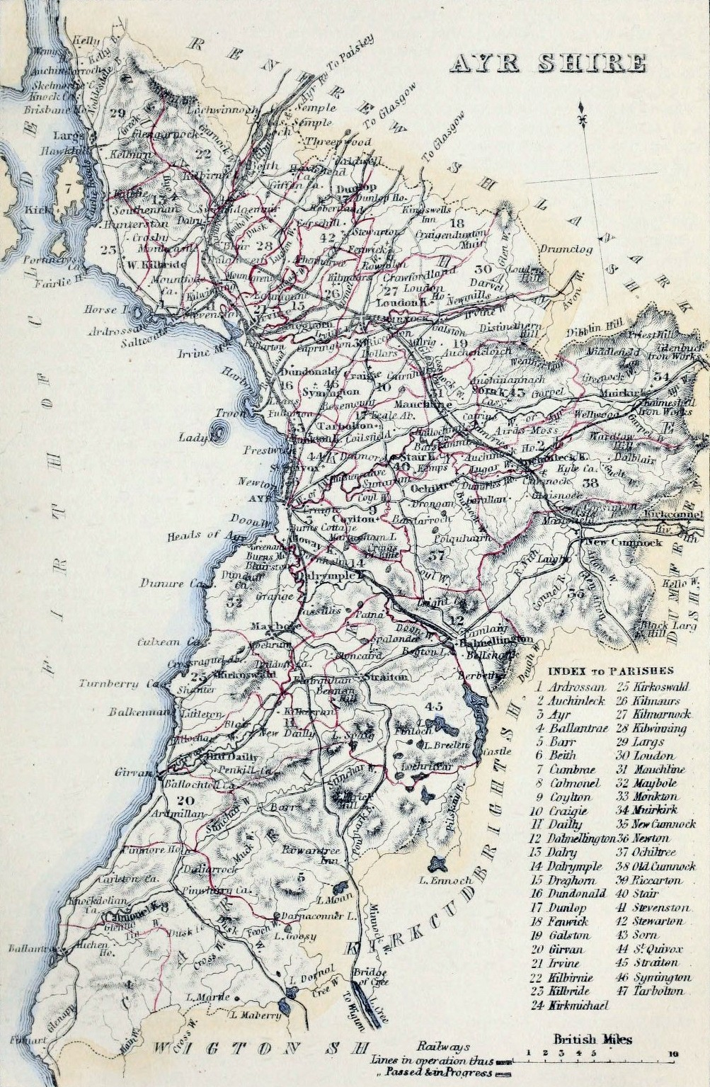 AYRSHIRE Civil Parish map in "Imperial gazeteer of Scotland, or, Dictionary of Scottish Topography" Volume 1. pp.110-114 Edited by Rev. John Marius Wilson.